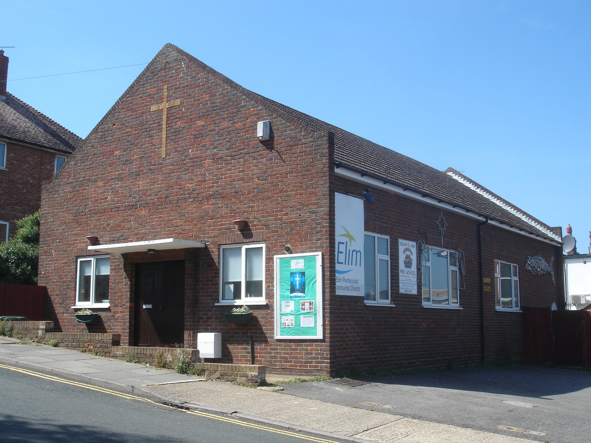 Elim Pentecostal Community Church, Meeching Rise, Newhaven, District of Lewes, East Sussex, England